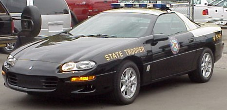 2001 Florida Highway Patrol Police Interceptor Special Service Package B4C option Chevrolet Camaro.